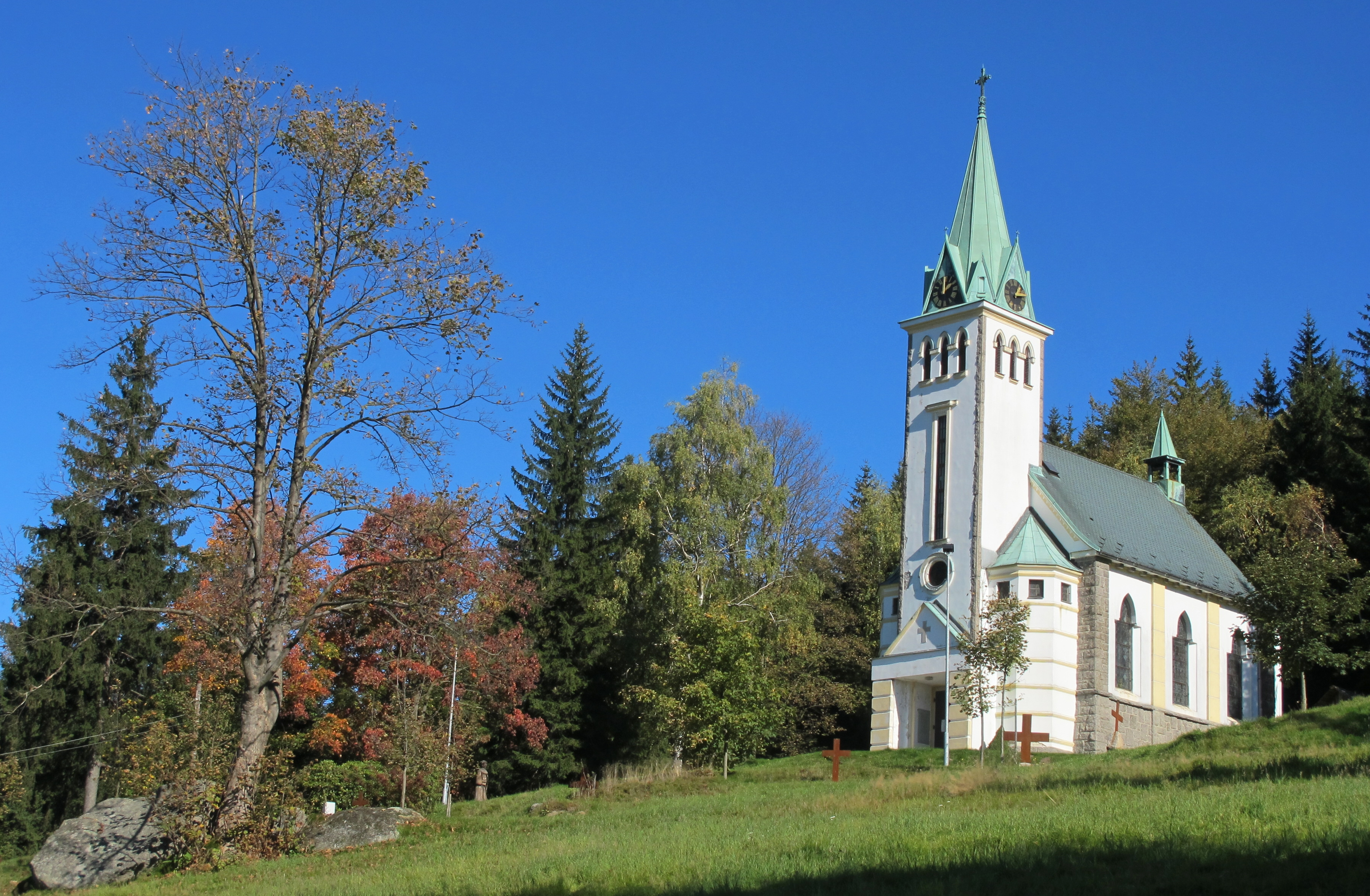 Church in Bedřichov in Jablonec nad Nisou District, Jizera Mountains, Czech republic